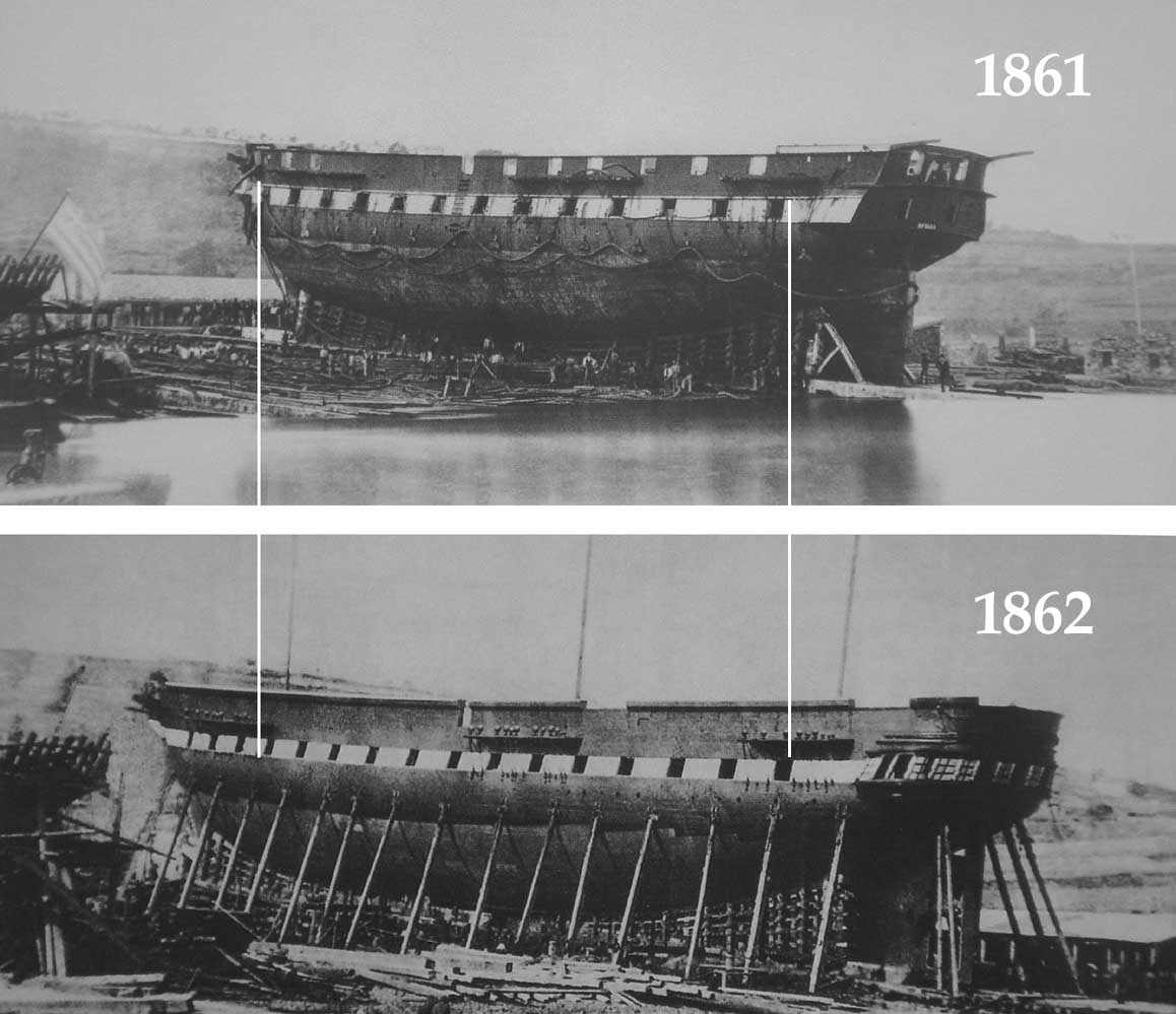 Comparison of both versions of Novara's hulls. 1861 version is identical to 1856 refit for circumnavigation. Photographs of the officially called 'refitting' were taken, according Aichelburg, on 1861-11-08 and 1862-04-20, respectively, in San Rocco. From "Novara 1850", just two ribs were kept. Mind, for instance, that there are 3 more gunports, later. Note that the machine newbuilt ship would only be installed after launch.